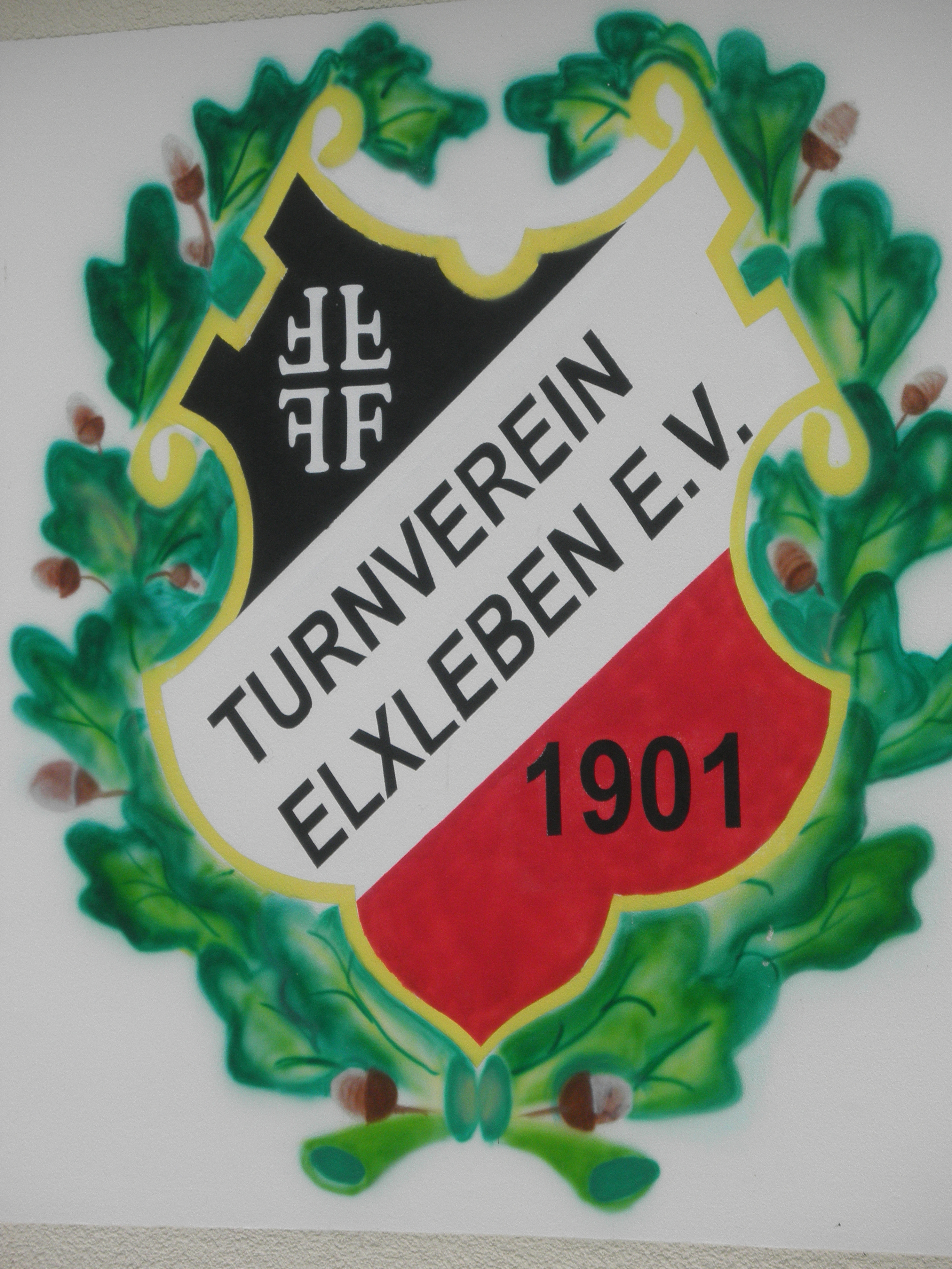 Symbol of Sports Organisation in Elxleben (Landkreis Sömmerda) in Thuringia